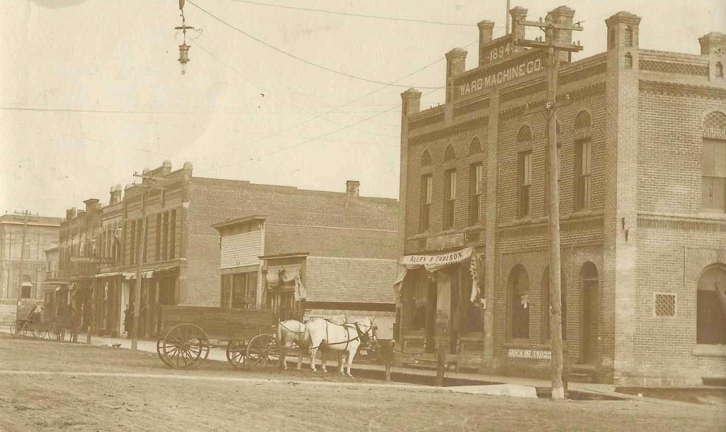 Sherburn Commercial Historic District